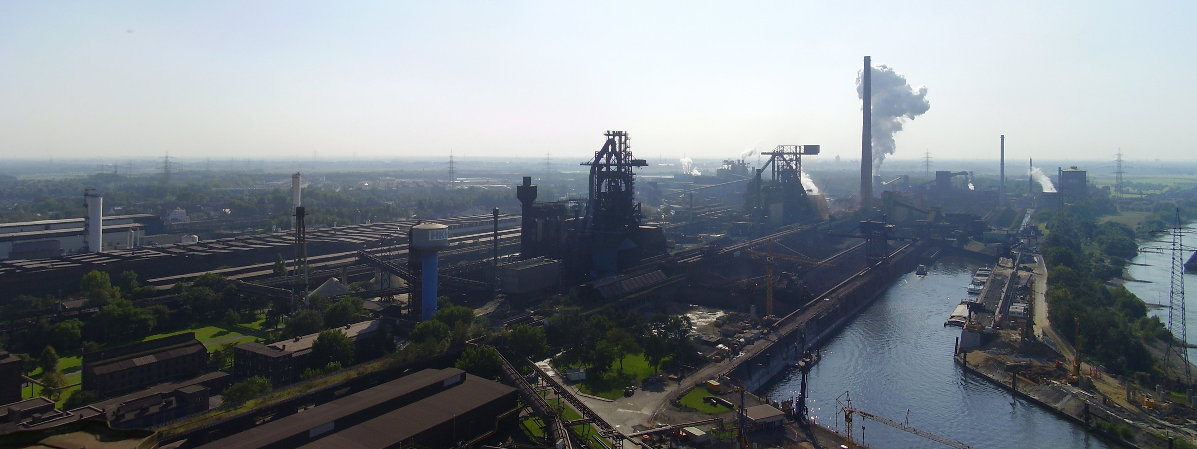 Hüttenwerke Krupp Mannesmann in Duisburg-Huckingen (Germany), took from power plant Huckingen